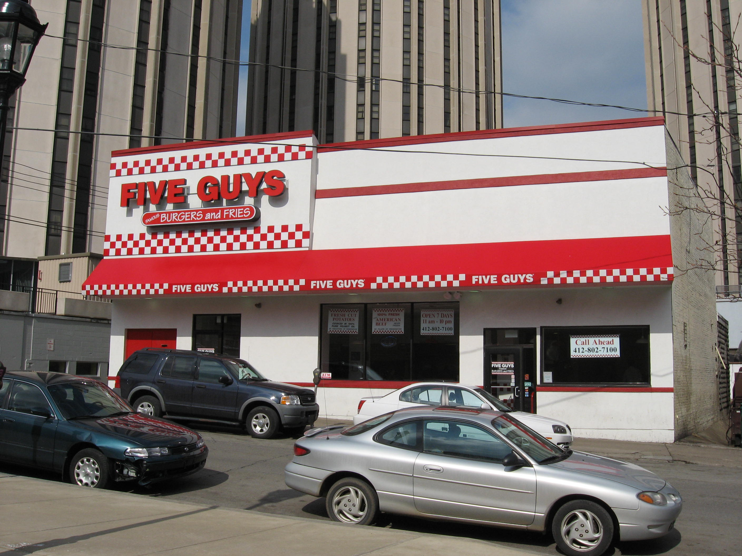 Photo of Five Guys Restaurant in Oakland Neighborhood of Pittsburgh, PA